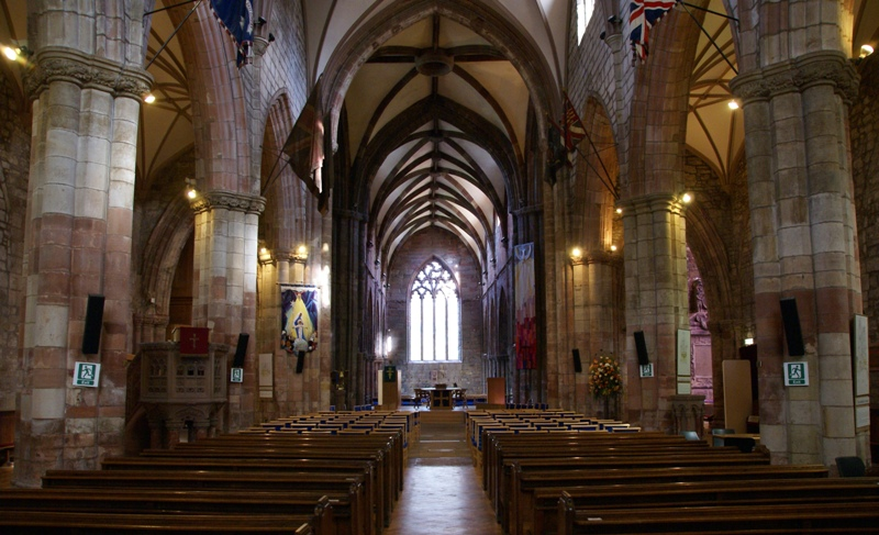 St Mary's Church, Haddington, Scotland. Interior.